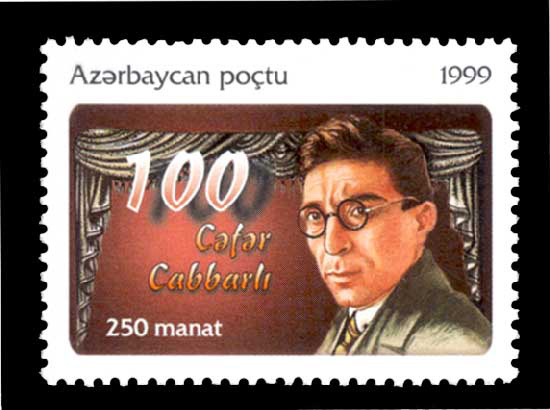 Stamp of Azerbaijan